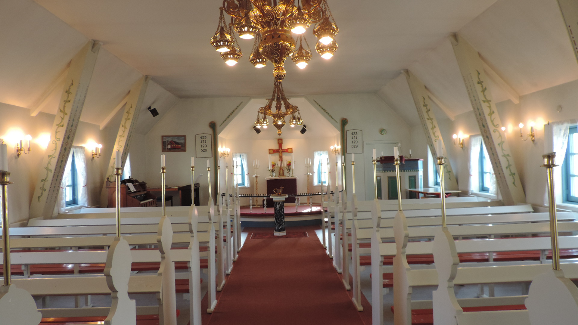 Pews in church, Aappilattoq, 2017